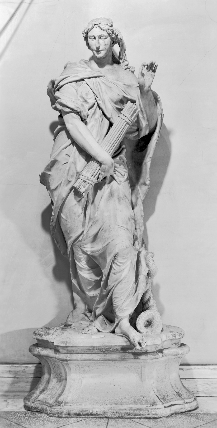 This is one of four large limestone figures that were originally installed as part of a set of 15 in the Palazzo Pisani in Venice, where they were placed in niches above the stairs leading to the library. As they were seen only from the front, their backs were left in a rough state. Gai has represented them as graceful, elongated creatures in greatly animated poses, wearing rich, wavy draperies. The figures are allegories, representing symbolically abstract concepts, or Muses, goddesses of the liberal arts. Their presence in connection with a library would allude to the pursuit of virtue through the study of the sciences and arts. Their individual identities remain uncertain, though some of their attributes correspond to those of figures in the "Iconologia," a widely read emblem book (a book of symbols and their meanings) by Cesare Ripa (Italian, ca. 1560-ca. 1625), first published in 1593. This figure holds a bundle of rods (the "fasces lictoriae," an ancient symbol of authority), and a cornucopia, a symbol of abundance, is beside her. She is an allegory of "Concordia" (harmony and peace), as described in the popular emblem book by Cesare Ripa, first published in 1593.